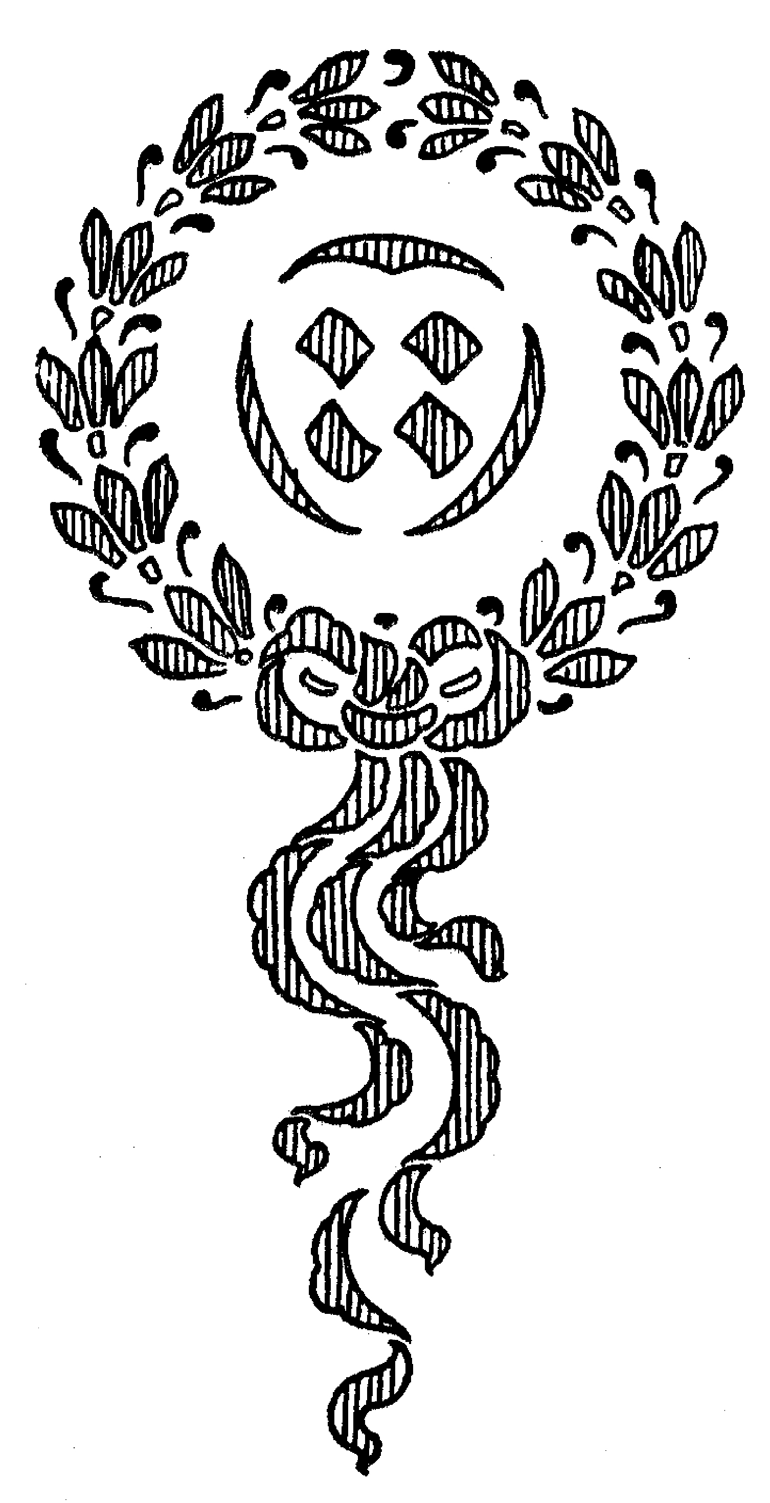 Arm of Prince Narisara Nuvadtivongs.